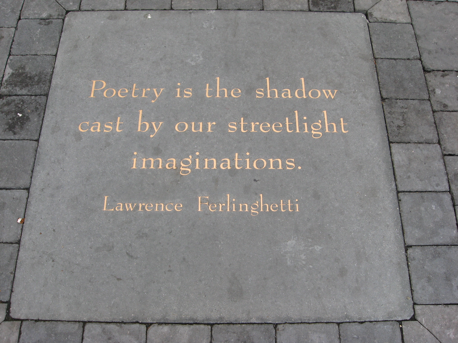 Lawrence Ferlinghetti's poem plague near the City Lights Bookstore in San Francisco Chinatown's Jack Kerouac Alley.